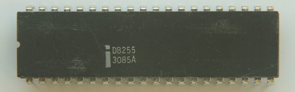 IC photo